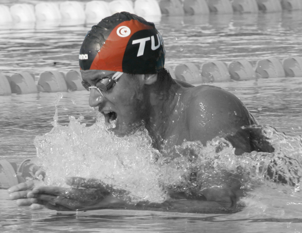 Colour isolated image of a swim cap worn by Oussama Mellouli.